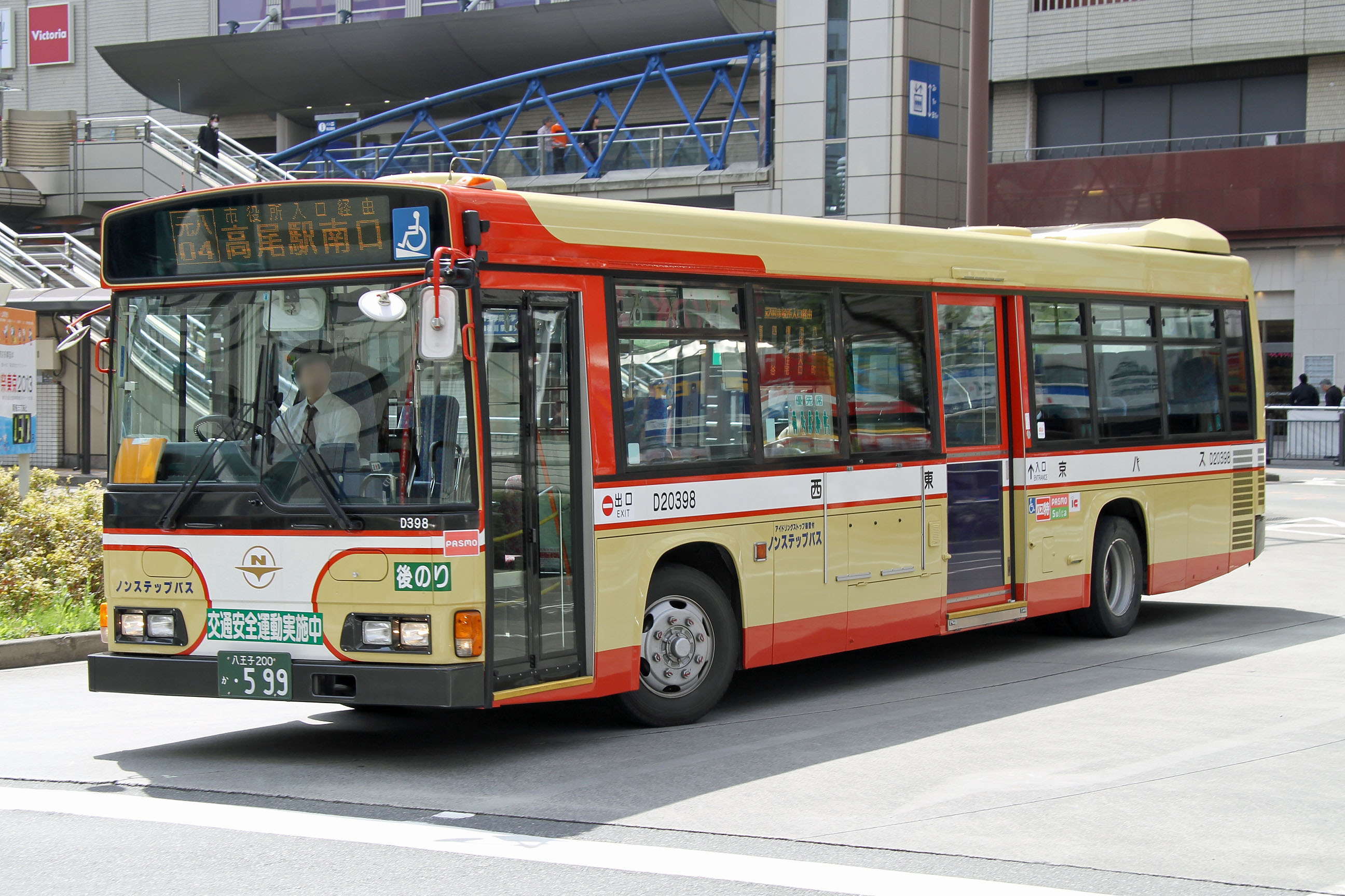 Nishi Tokyo Bus car 西東京バスの車両